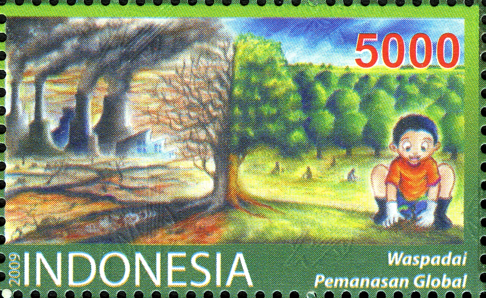 Stamps of Indonesia